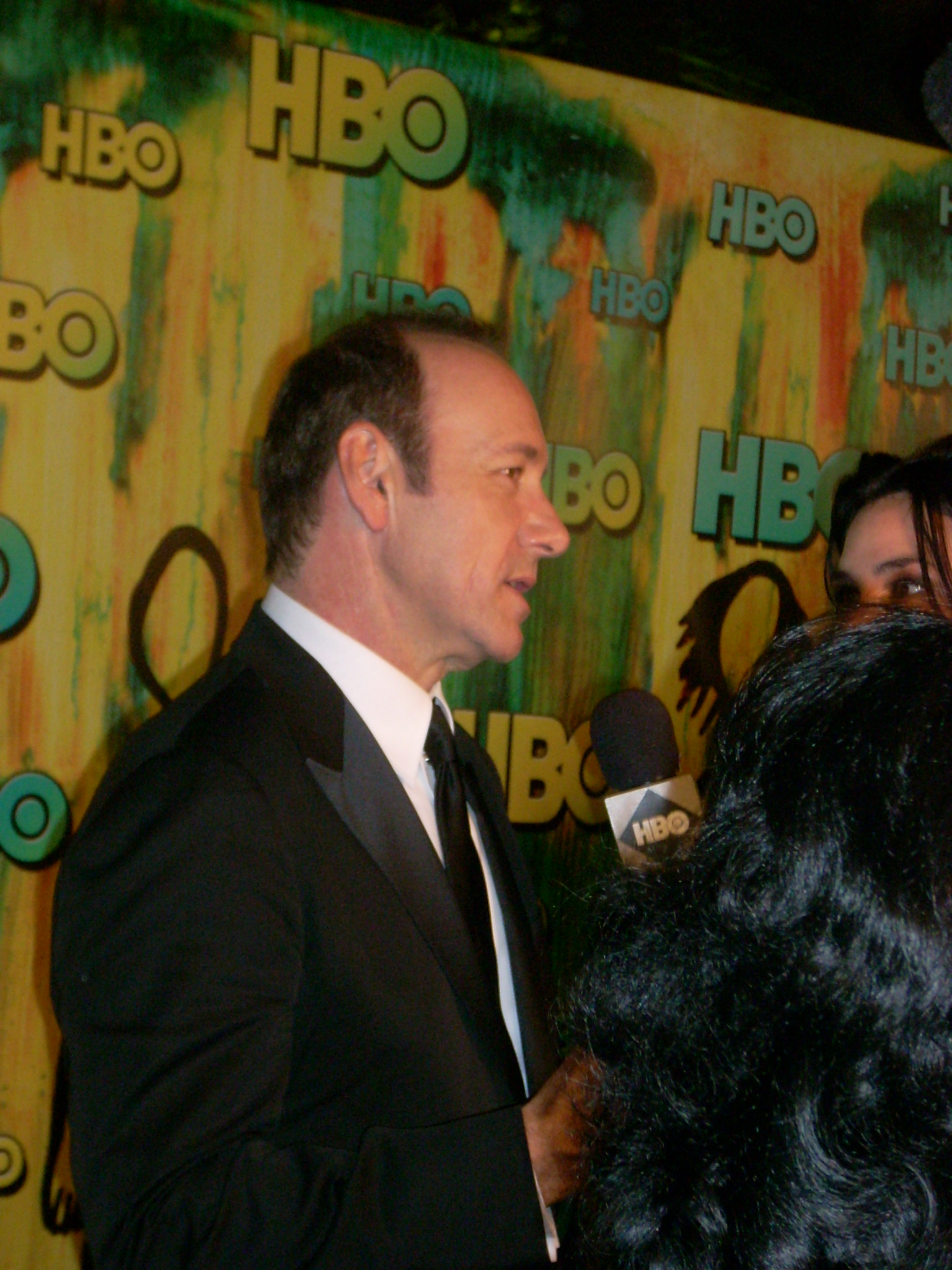 Kevin Spacey, at the HBO post-Emmys party, in 2008